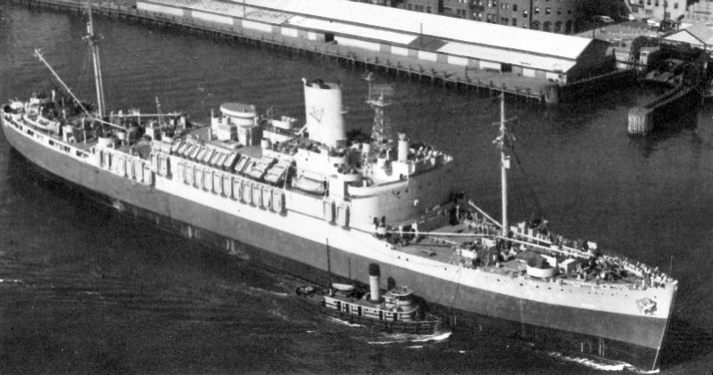 USS Lejeune (AP 74) underway in harbor, circa spring 1943, location unknown. The tones and the broad bands of paint suggest that the ship may be painted in Measure 22 camouflage.